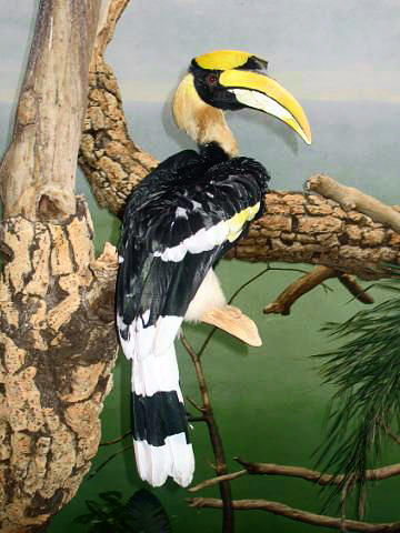 Description: Great Hornbill Buceros bicornis - Source: own work - Location: Bronx Zoo, New York - Author: self, User:Stavenn